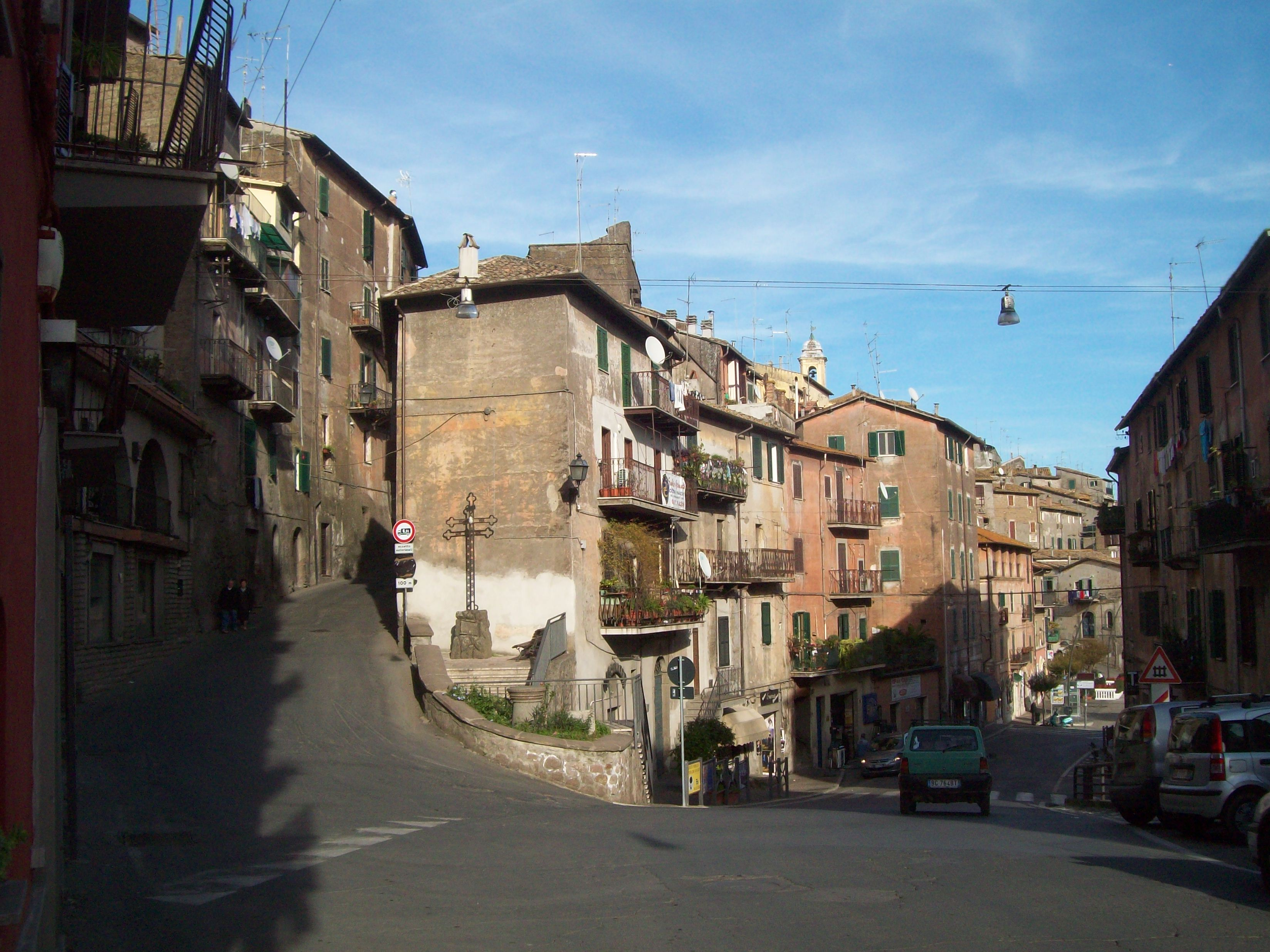 Vignanello, Latium, Italy